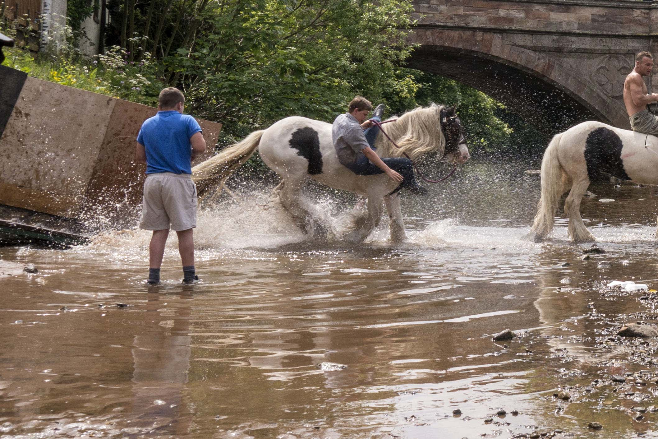 Appleby Horse Fair 2013